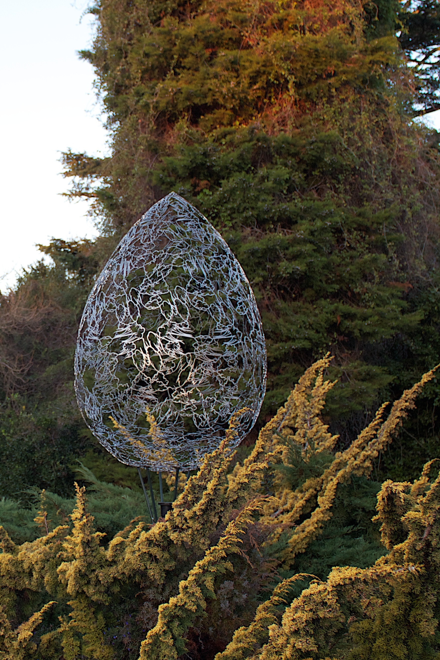 Neil Dawson's H₂O (2005) at Lincoln University, New Zealand